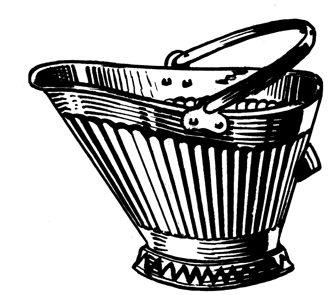 Line art drawing of a scuttle